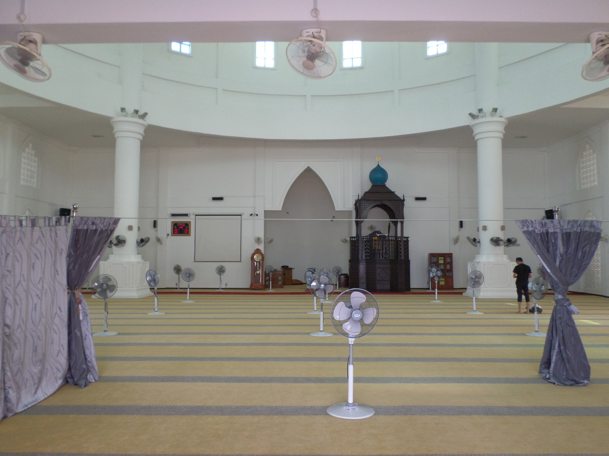 Malacca Straits Mosque, Malacca Town, Malacca, MalaysiaBahasa Melayu: Masjid Selat Melaka, Bandaraya Melaka, Melaka, Malaysia